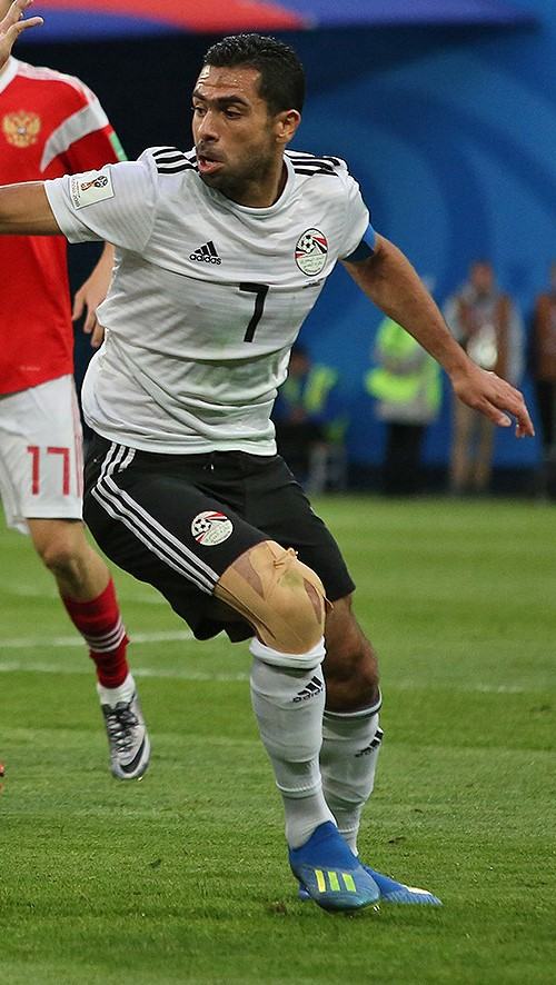 Ahmed Fathi